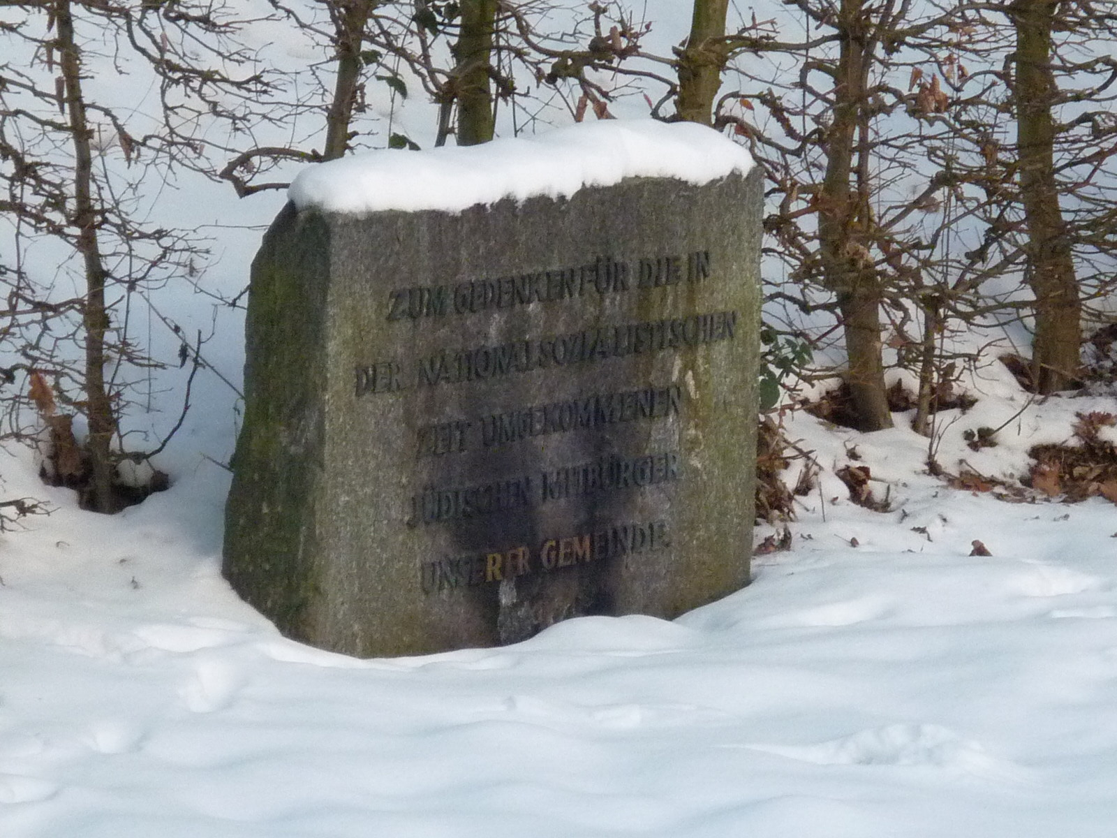 Former Jewish cemetery in Lank-Latum, part of Meerbusch, Germany